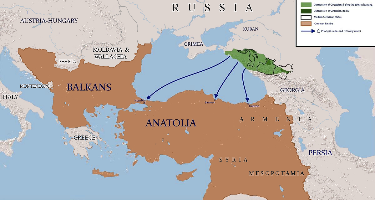 map shows the routes which were used to resettle circassians to ottoman empire